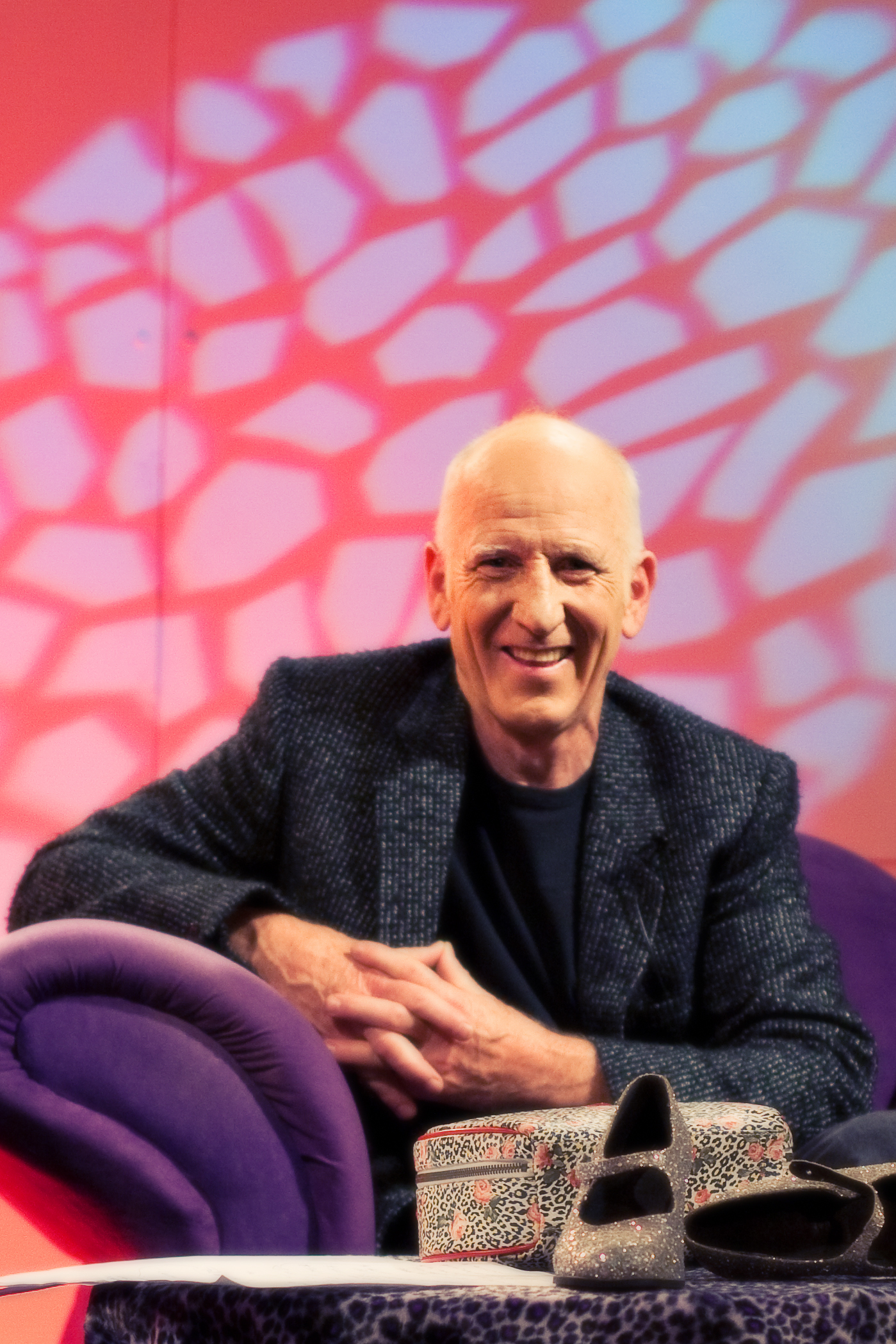 Australian actor Dennis Coard